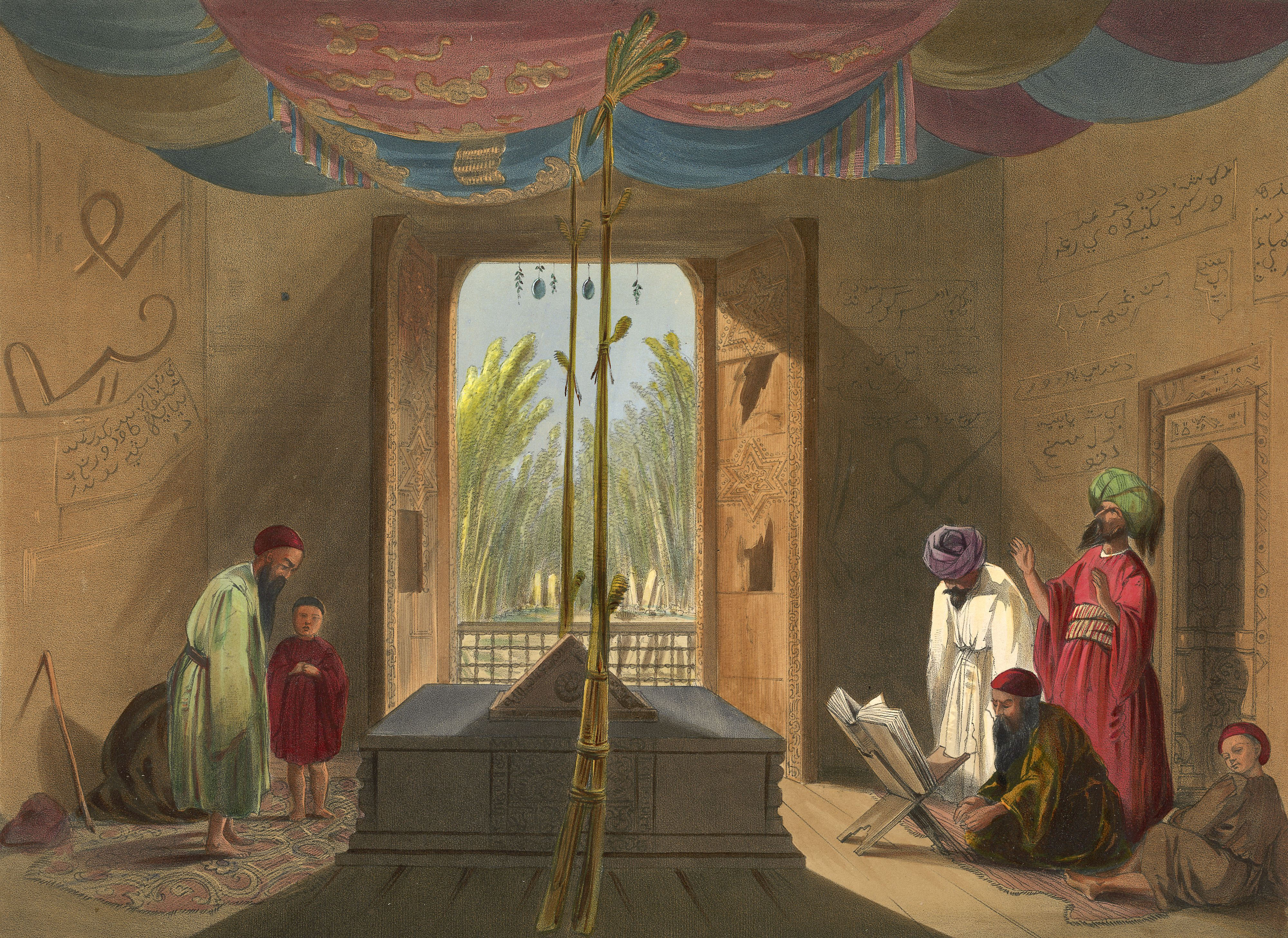 Mosque and Tomb of the Emperor Soolta Mahmood of Ghuznee This lithograph is taken from plate 10 of 'Afghaunistan' by Lietenant James Rattray. The area around the tomb of Mahmud of Ghazni (998-1030) Rattray thought to be one of the most pleasing spots in Afghanistan. The tomb was entered via a spacious courtyard, watered by a clear stream. Visitors would pass through covered passages to a garden framed by mulberry, plum, pear, peach, apricot, cherry and rose trees. Their blossoms hung over exquisitely carved marble tombs, including Mahmud's. This was a place of pilgrimage, decorated with flowers and peacock feathers: Afghan symbols of royalty. The folding doors shown were reputed to be the famous Sandalwood Doors, carried off in 1026 by Mahmud after his destruction of the Somnath Temple in Gujarat, during the last of his devastatingly successful forays in India. The British removed them from the tomb in 1842, laboriously transporting them to Agra Fort, where they were found to be replicas of the original.